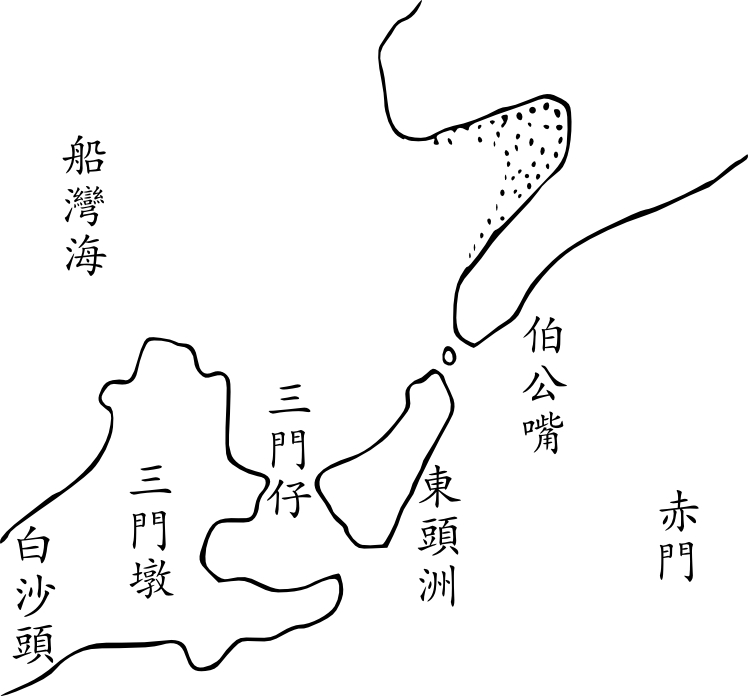 Sam Mun Tsai